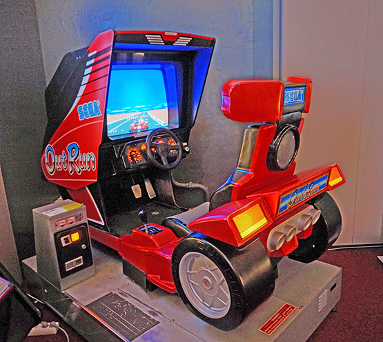 Sega Out Run. The Finnish Museum of Games, Tampere.